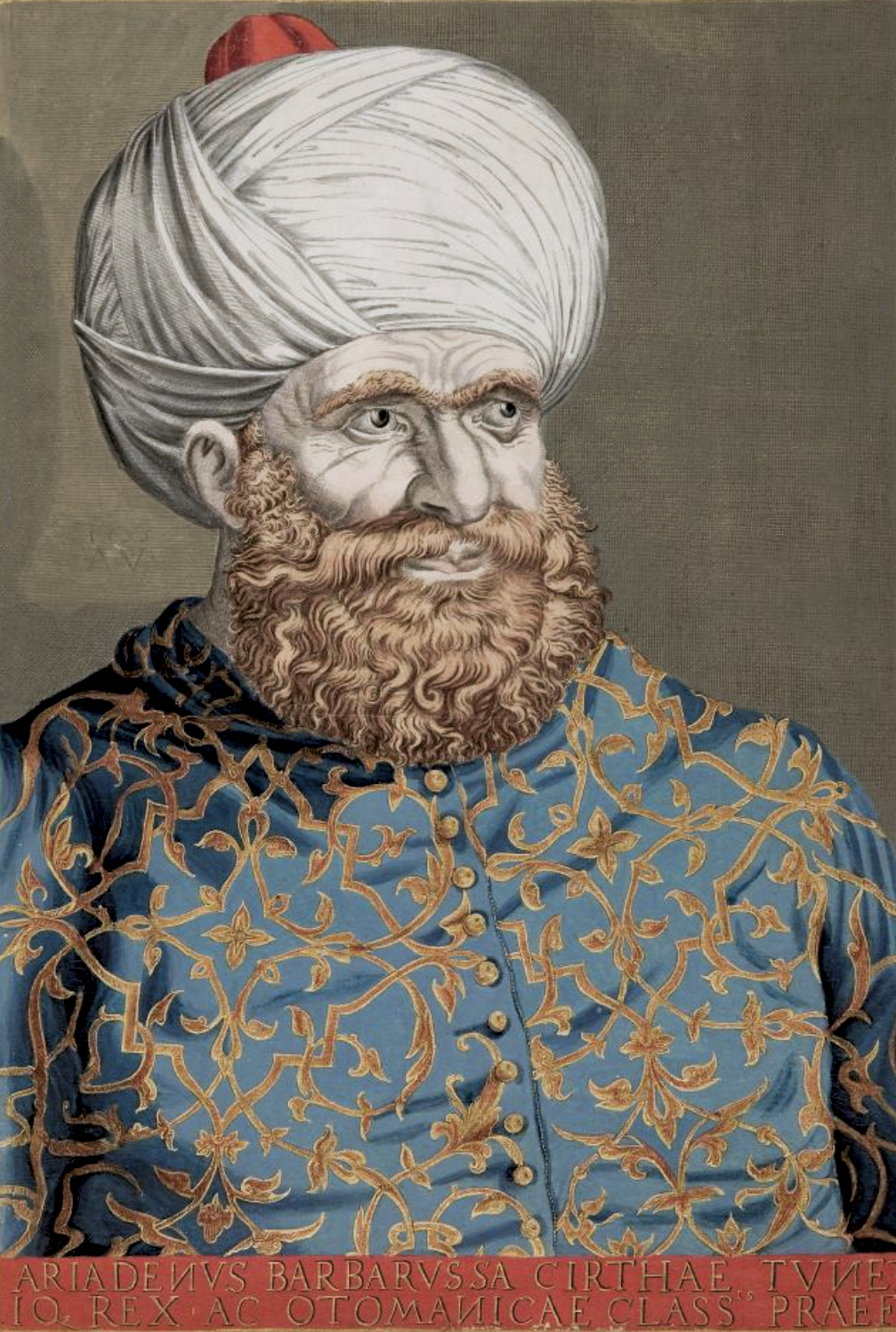 Hand colored engraving. 440 x 301 mm. Inscription: ARIADENVS BARBARVSSA CIRTHAE [...] OTOMANICAE CLASSis PRAEF.